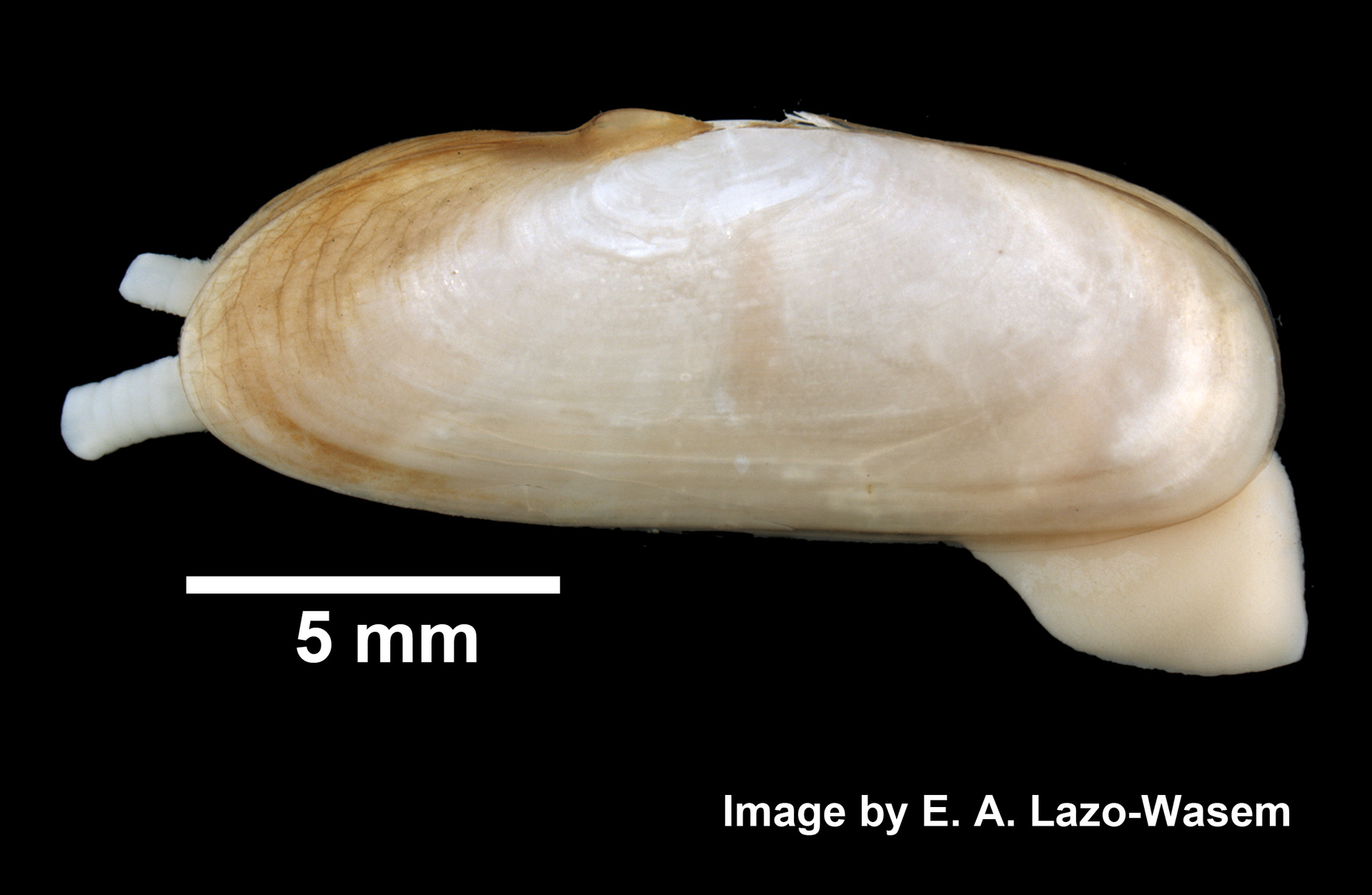 PRESERVED_SPECIMEN; ; ; 70% alc.; ; GM Image; Gray Museum; IZ number 33463; lot count 10; original catalog number GM 4647; 1936-12-16T00:00:00Z